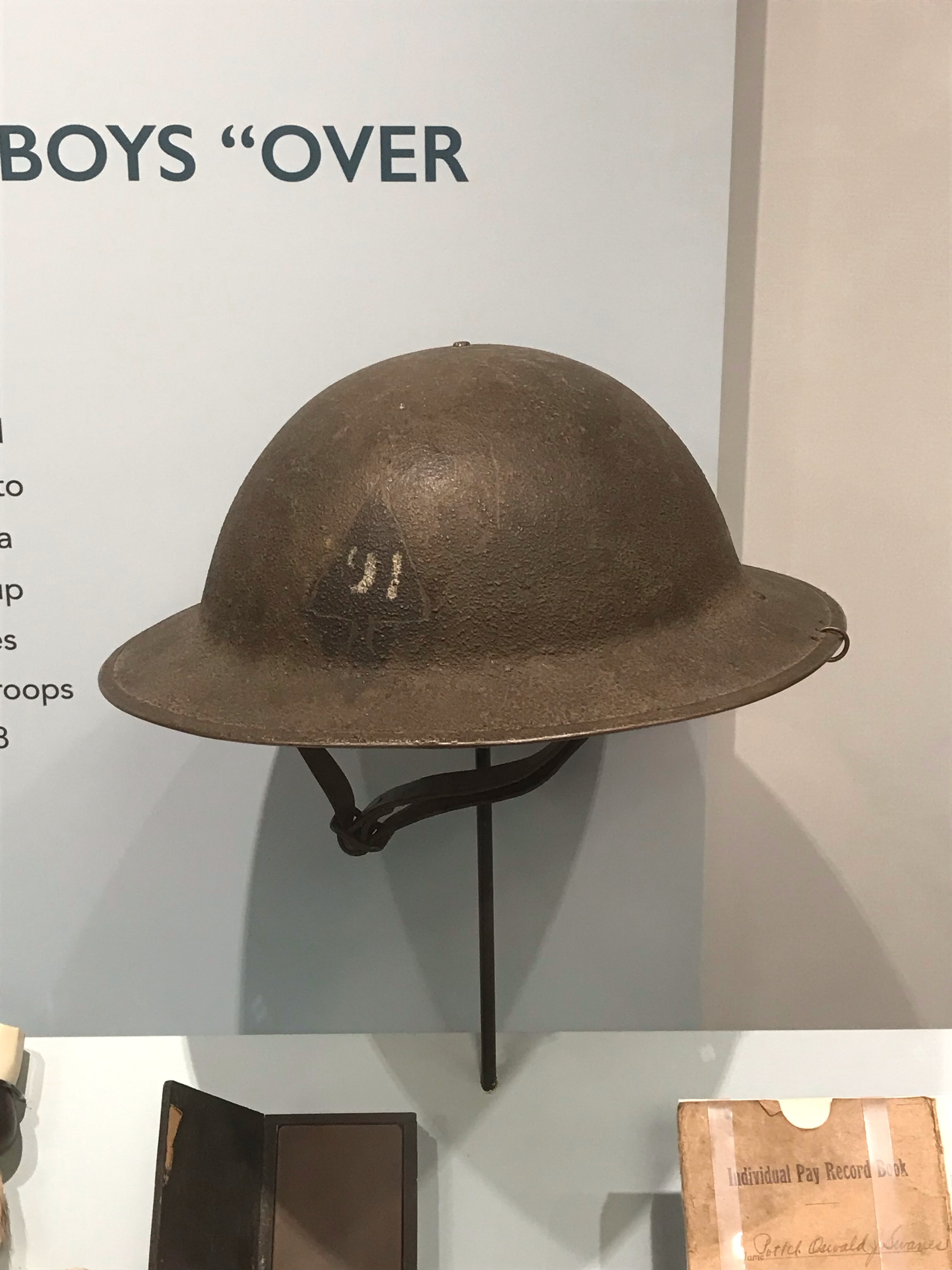 M1917 Steel Helmet worn by a Doughboy of the 91st Division of the American Expeditionary Force in France in World War 1. Item is located in the US Army Fort Lewis Museum in Washington State.